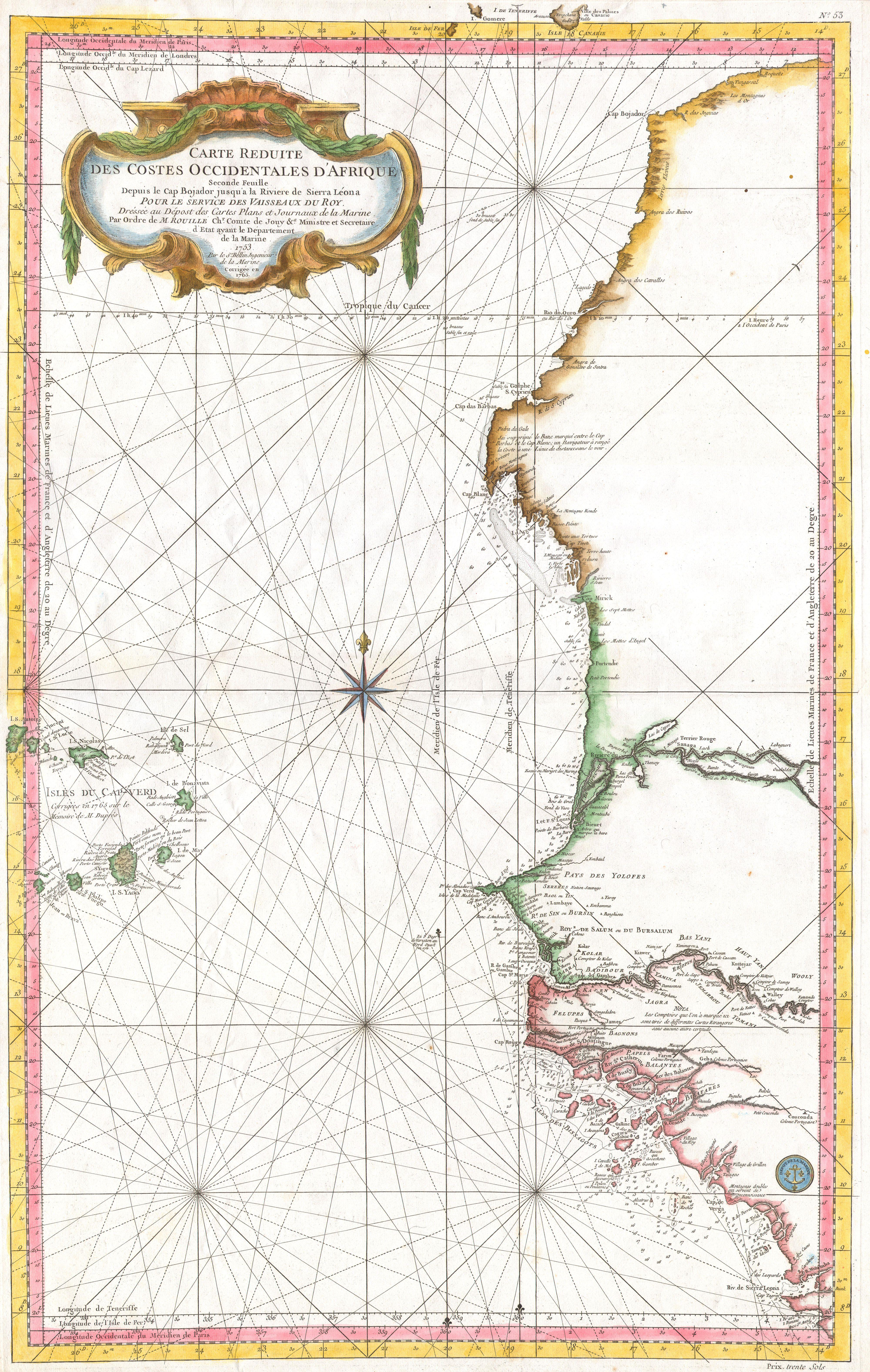 This large nautical chart of Western African was produced by the French Cartographer Jacques-Nicolas Bellin. Depicts Western Africa from The Canary Islands South through Western Sahara, Senegal, Guinea-Bissau, the Gambia, Guinea, and Sierra Leone. This is primarily a costal chart with depth soundings and navigational marks, but does show the river courses and considerable interior details in the Cape Verde Islands. The remainder of the interior remains largely unmapped. There is a large decorative title cartouche in the upper left as well as a Depot del la Marine stamp in the lower right. All in all, an extraordinary sea chart of Africa’s northwest coast.